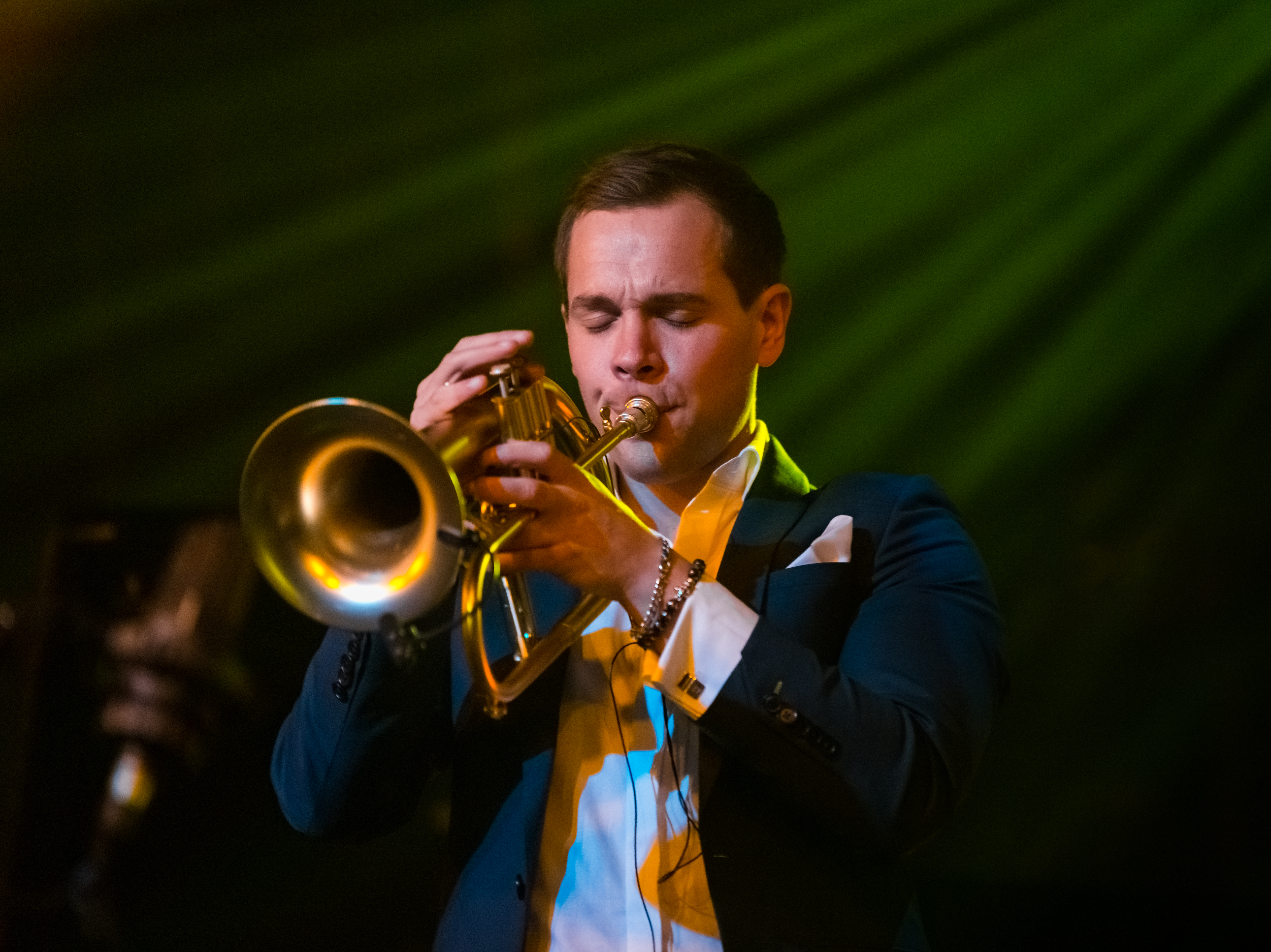 Julian & Roman Wasserfuhr - Leverkusener Jazztage 2017